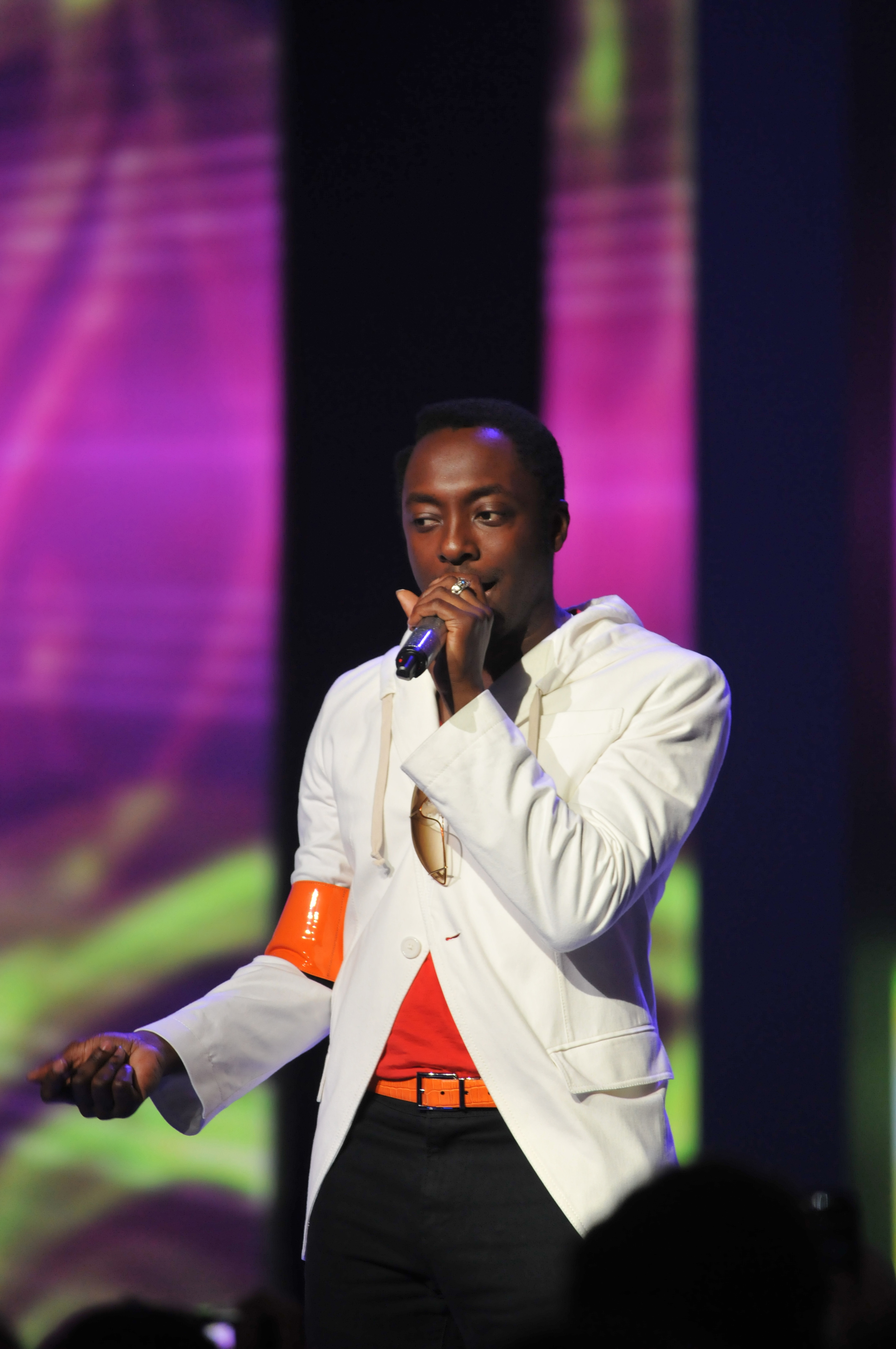 The Black Eyed Peas rocked the house for the crowd during the 2011 Walmart Shareholders Meeting at the Walton Arena in Fayetteville, Arkansas. To watch the replay of the event, view videos, and join the conversation, visit